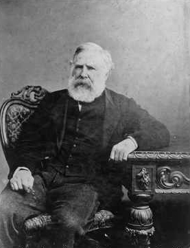 Photograph of John Hart, Premier of South Australia.